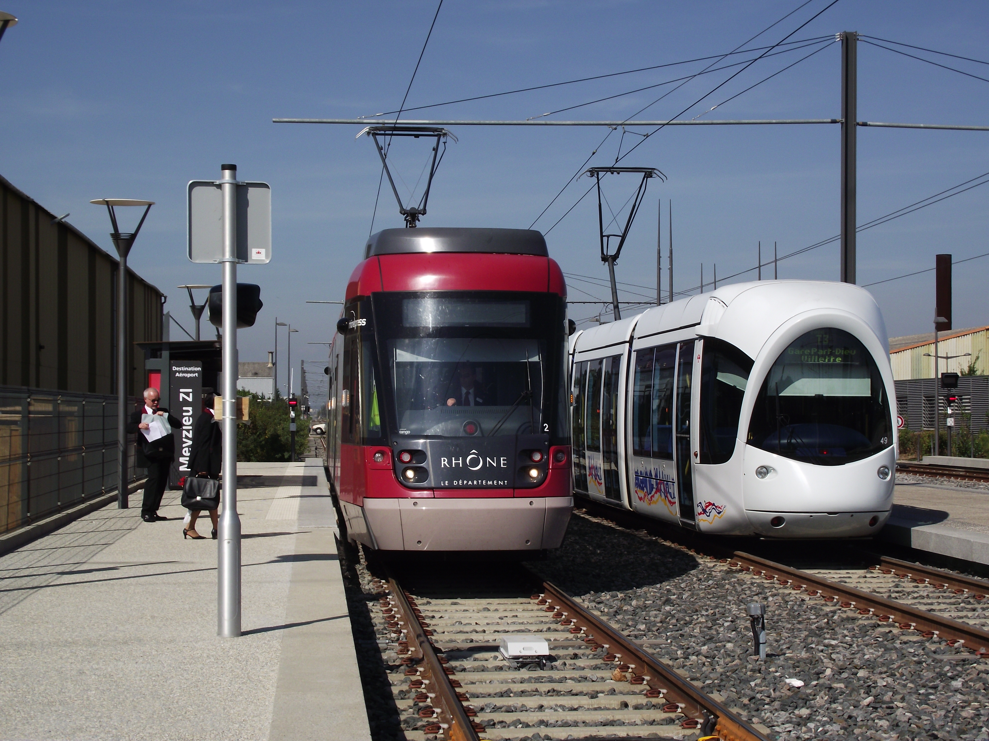 A T3 tram and Rhônexpress tram for the airport at Meyzieu Z.I.